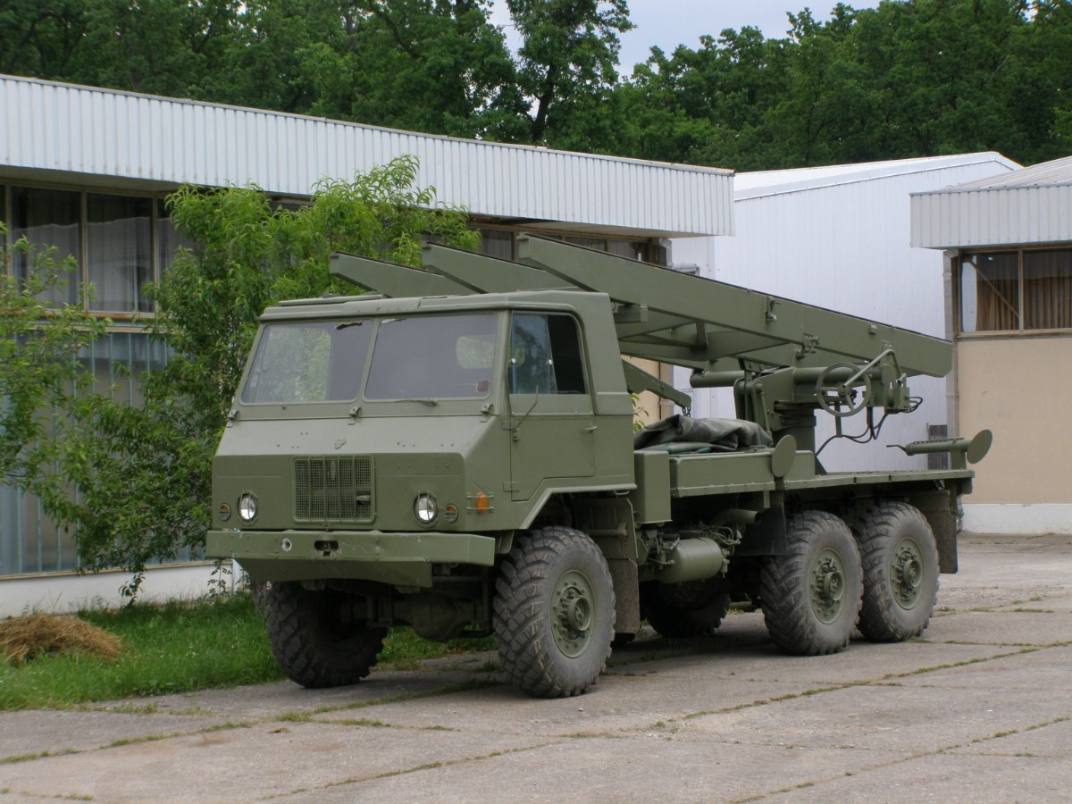 Košava rocket-artilery system.